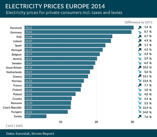 Electricity prices (€ cents) for households in Europe 2014